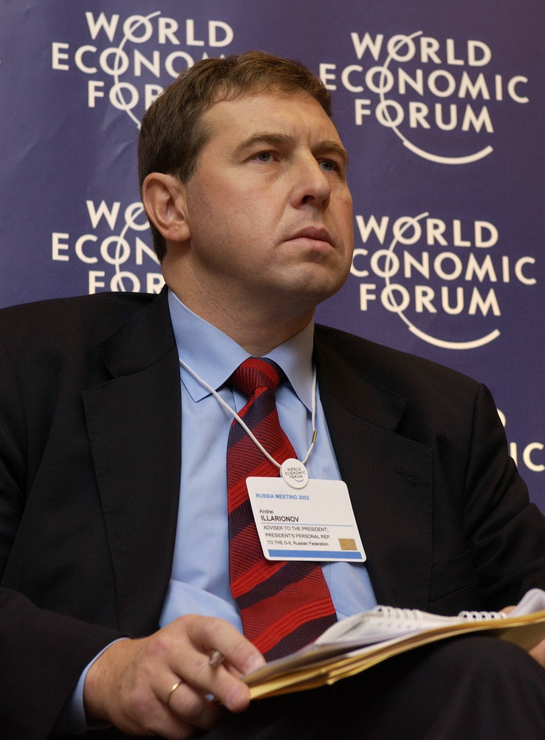 Andrey Illarionov at the World Economic Forum in Russia, 2 October 2003, Moscow